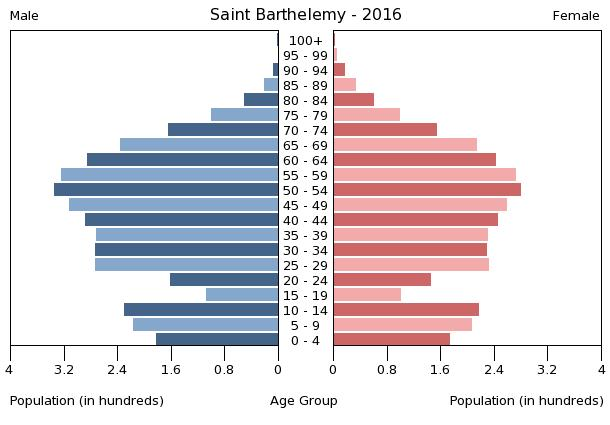 The population pyramid of Saint Barthelemy illustrates the age and sex structure of population and may provide insights about political and social stability, as well as economic development. The population is distributed along the horizontal axis, with males shown on the left and females on the right. The male and female populations are broken down into 5-year age groups represented as horizontal bars along the vertical axis, with the youngest age groups at the bottom and the oldest at the top. The shape of the population pyramid gradually evolves over time based on fertility, mortality, and international migration trends.